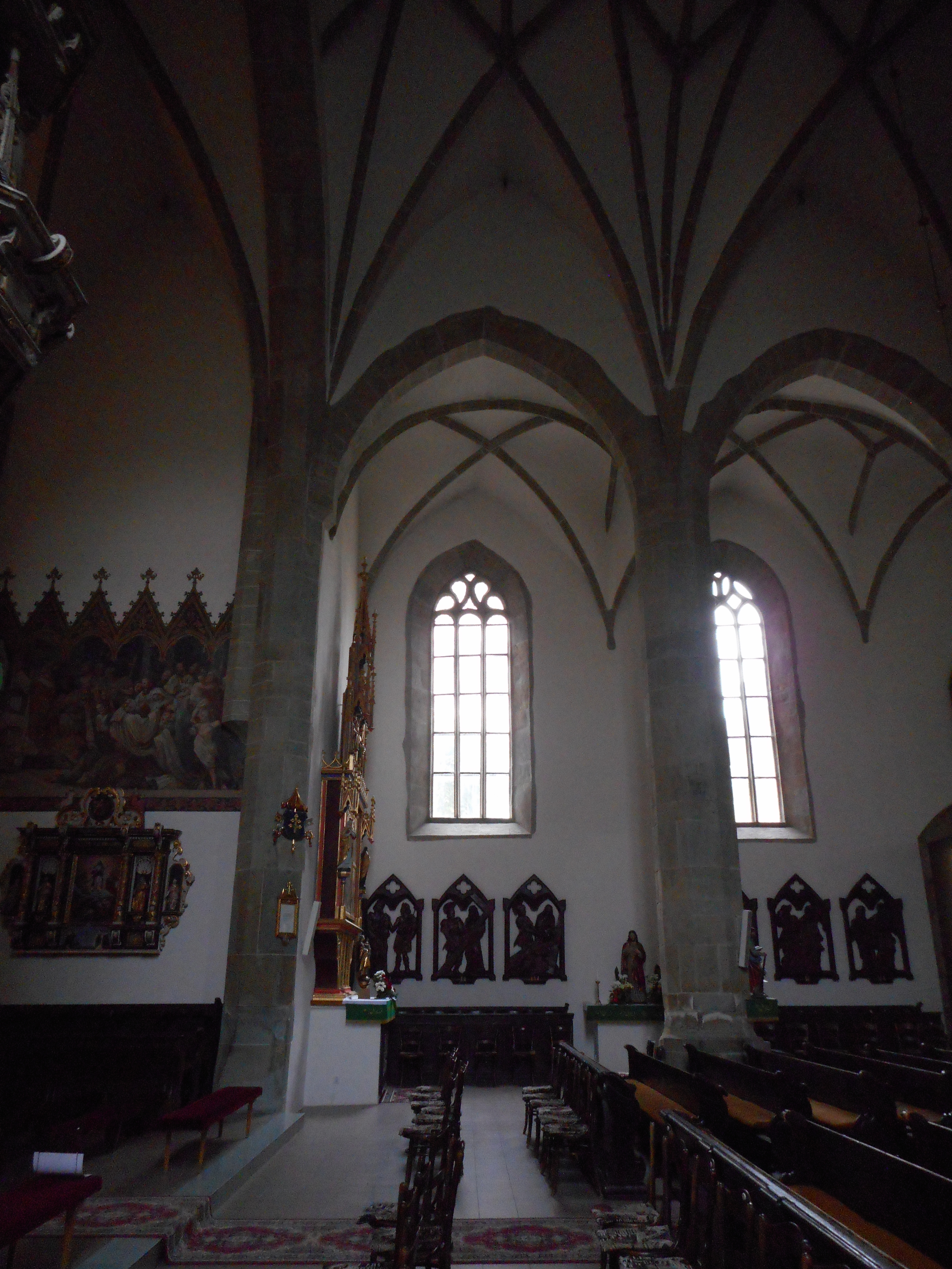 Gothic window